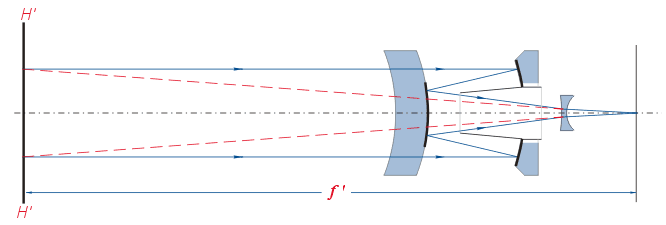 Schematic of a catadioptric (mirror-lens) telephoto camera lens.